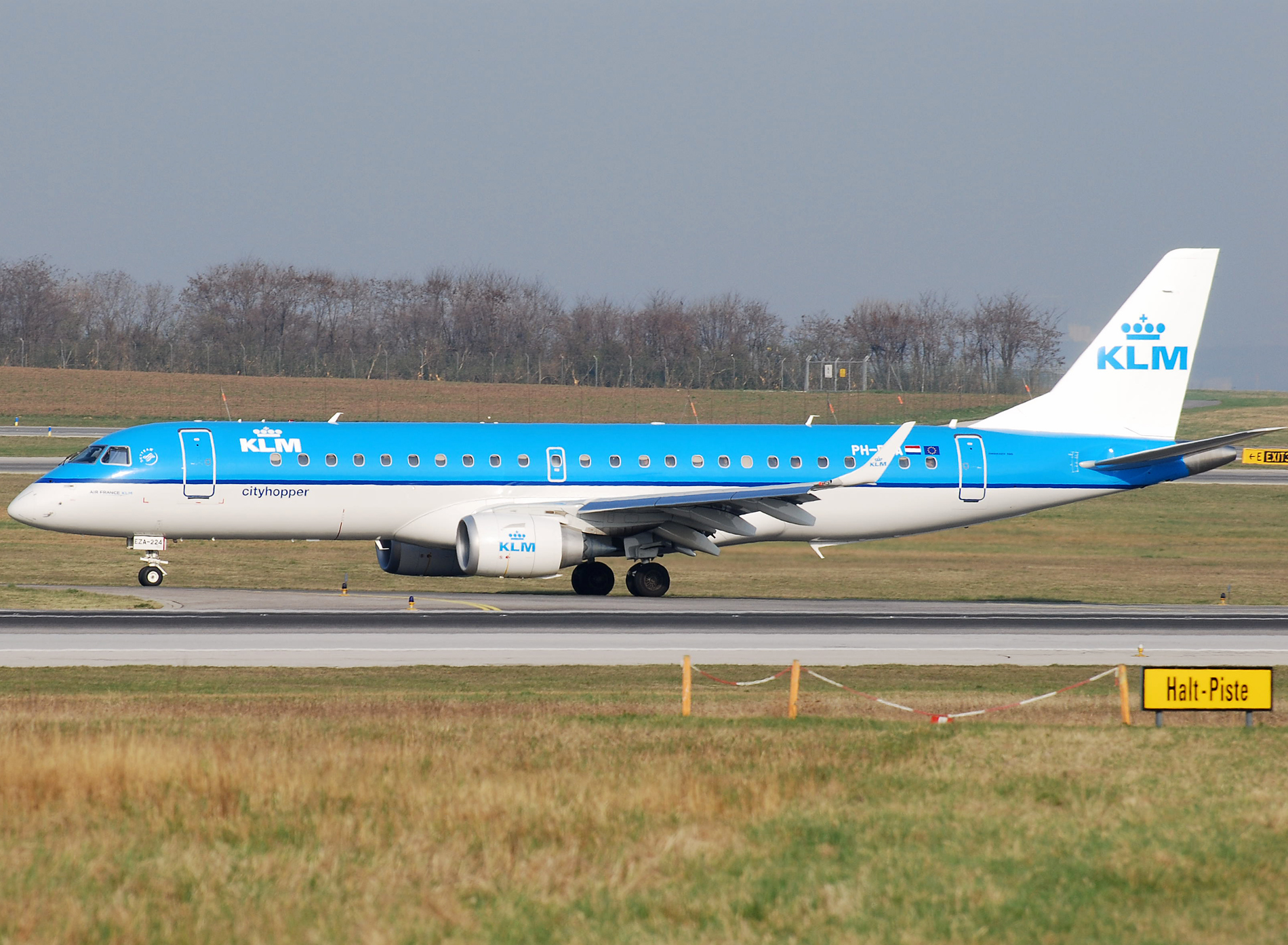 Embraer 190, PH-EZA